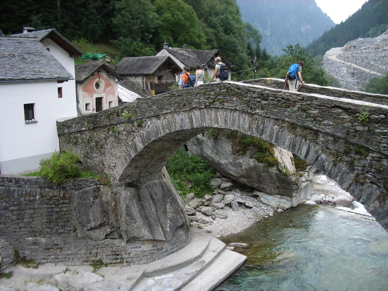 Arvigo GR, Switzerland self-made, July 2006